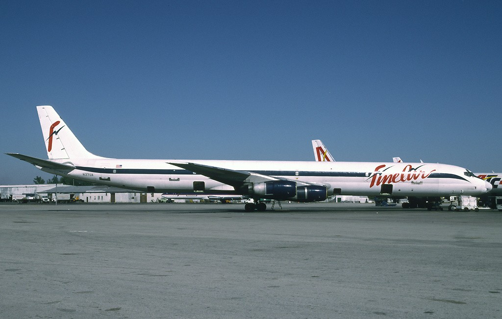 Aircraft Fine Air McDonnell Douglas DC-8-61(F) Reg.: N27UA MSN: 45942 Line No.: 349 Location & Date Miami - International (Wilcox Field / 36th Street / Pan American Field) (MIA / KMIA) Florida, USA - February 1996